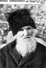 Ukranian-American dissident Agapius Honcharenko